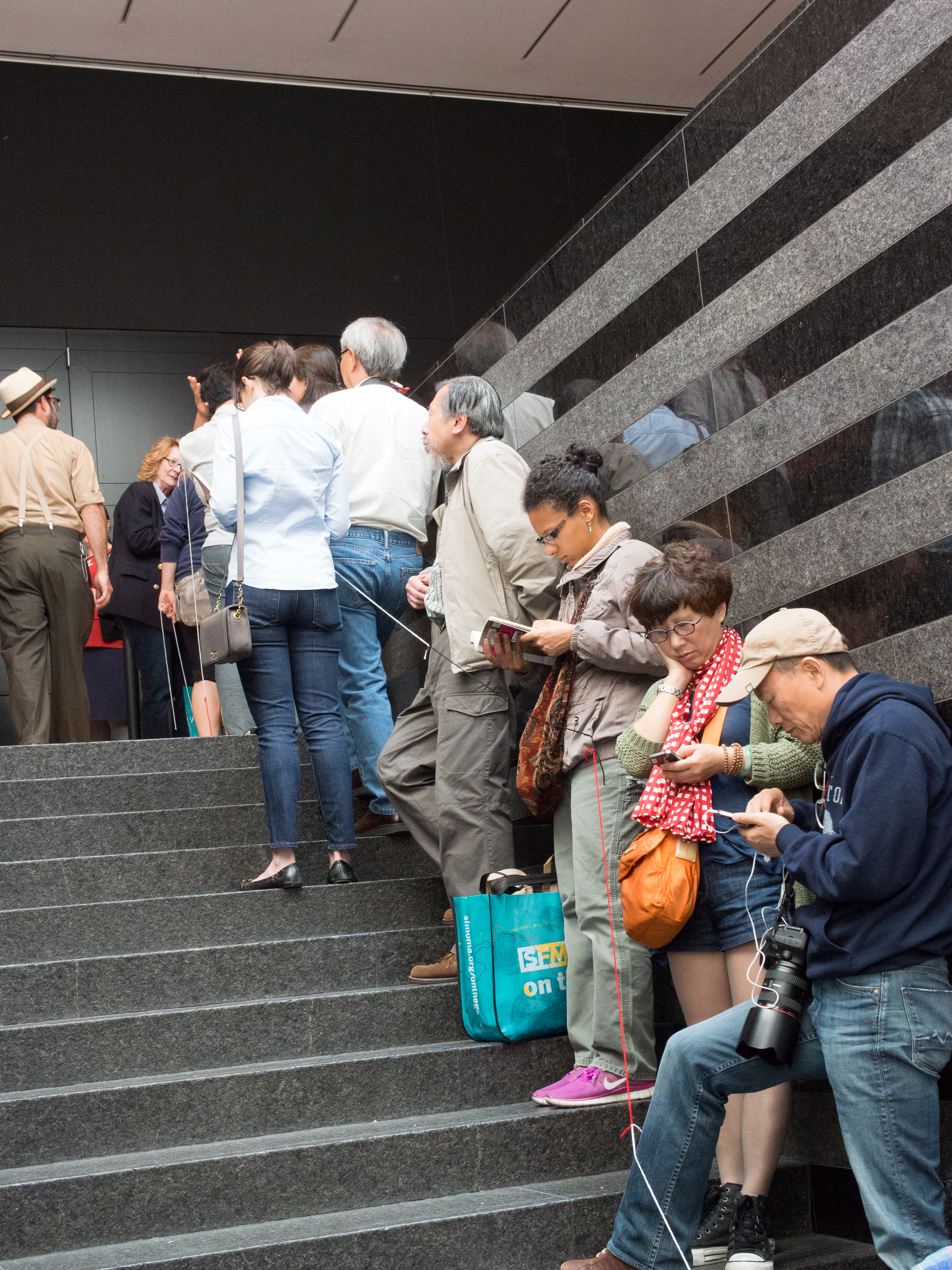 Visitors in line to see Christian Marclay's The Clock at SFMOMA in San Francisco, California, United States